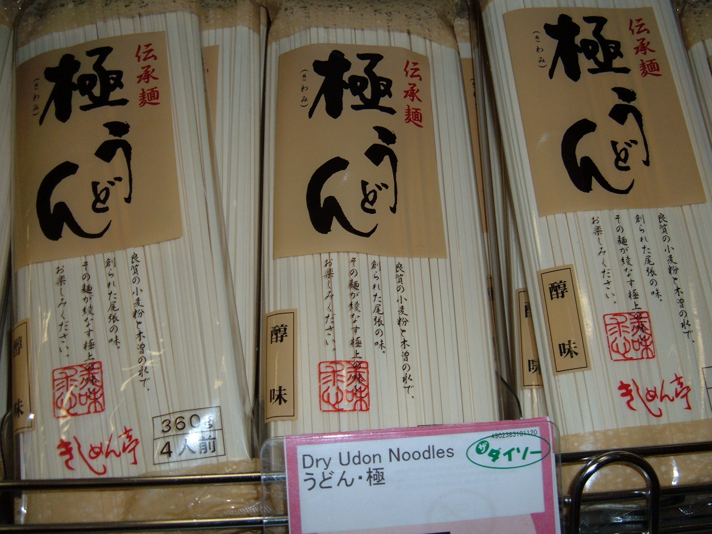 Dry udon noodles for sale in a Daiso store in Daly City, California.